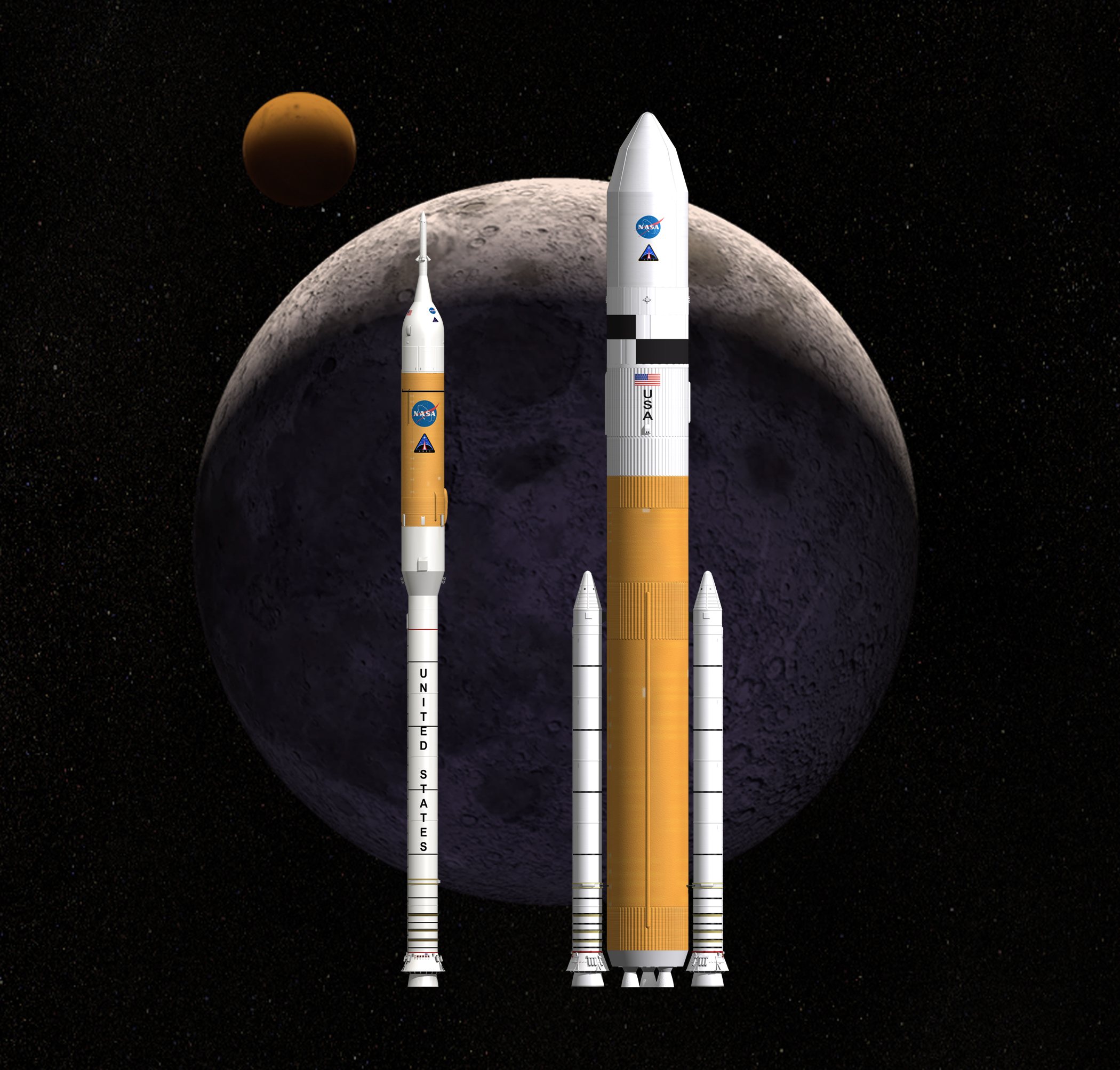 Ares I and Ares V rockets (February 2008) MSFC-0800203 (8 Feb. 2008) -- A concept image shows NASA's next-generation launch vehicle systems standing side-by-side. Ares I, left, is the crew launch vehicle that will carry the Orion crew exploration vehicle to space. Ares V is the cargo launch vehicle that will deliver large-scale hardware, including the lunar lander, to space.